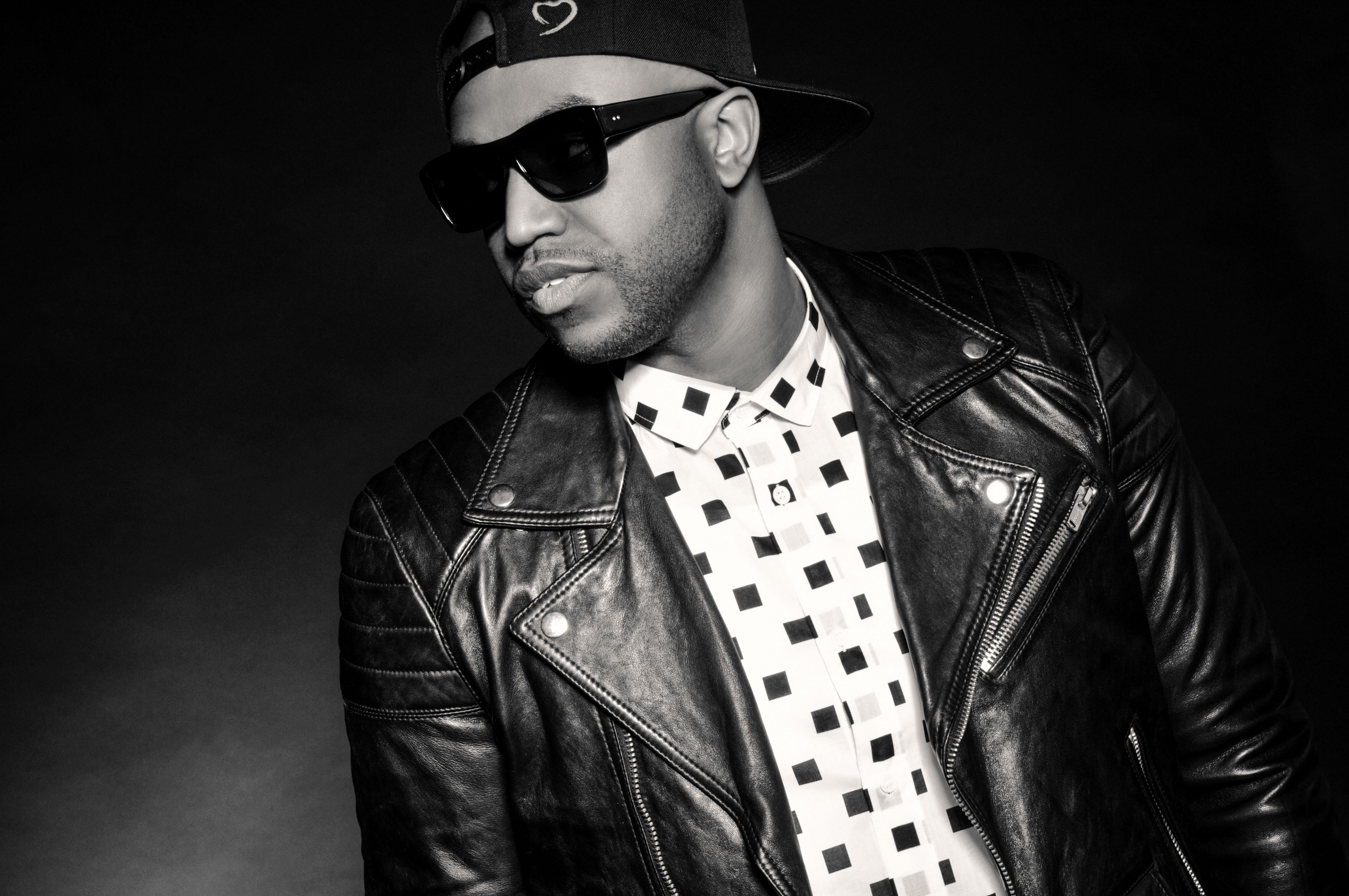 Rico Love photo